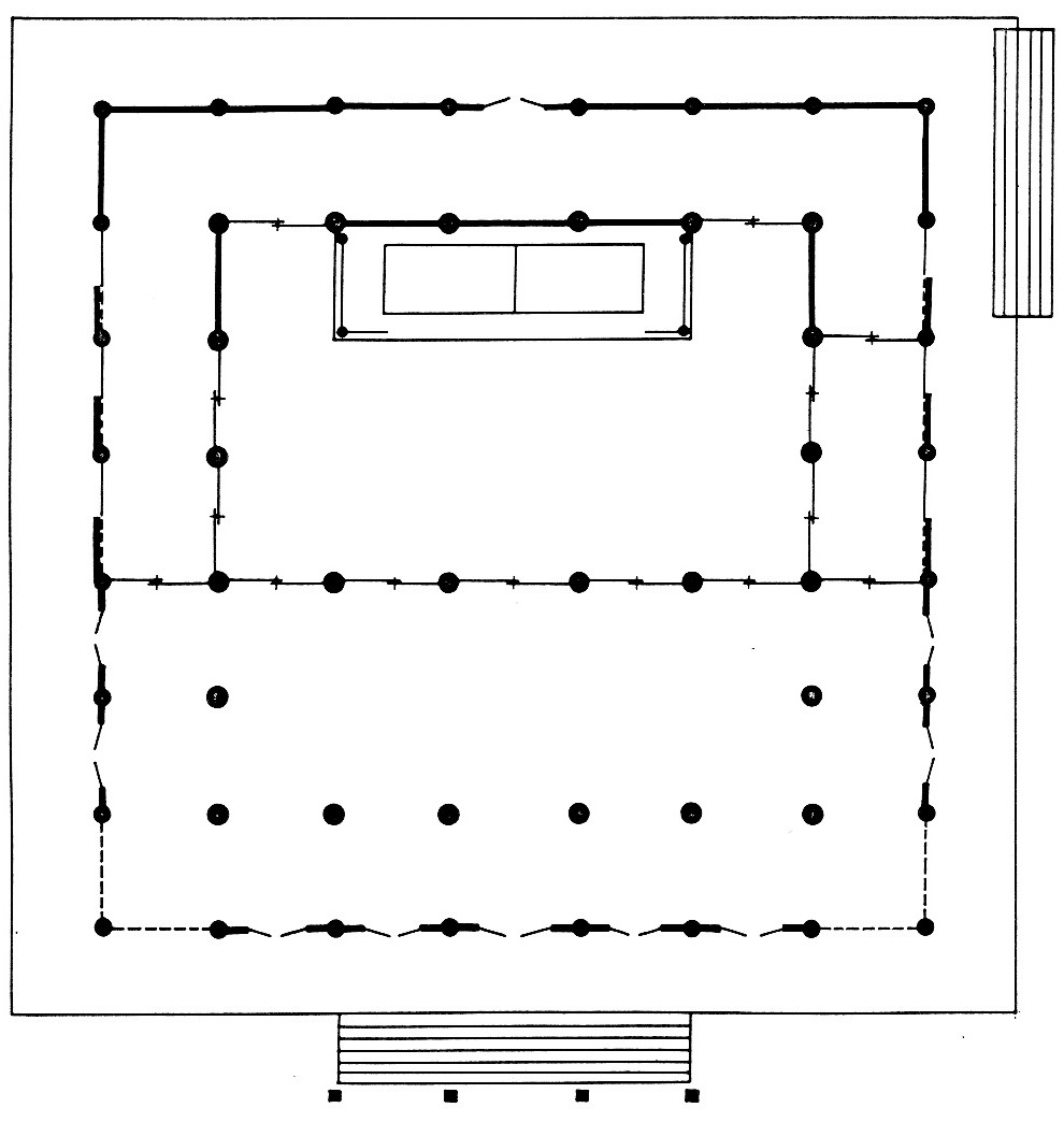 Layout of Chôkô-ji at Katô